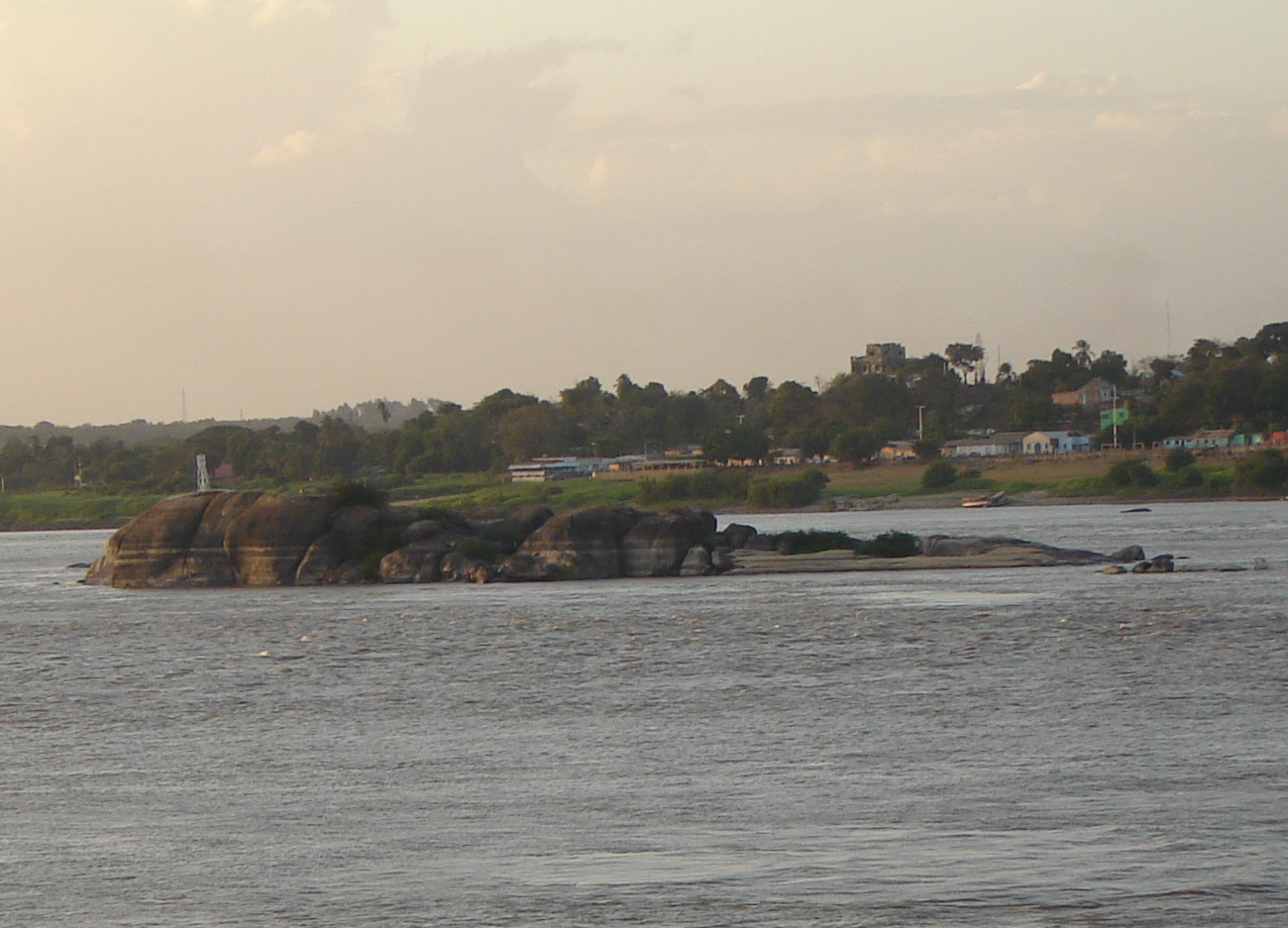 La Piedra del Medio, named by Alexander Humboldt the Orinocometer.